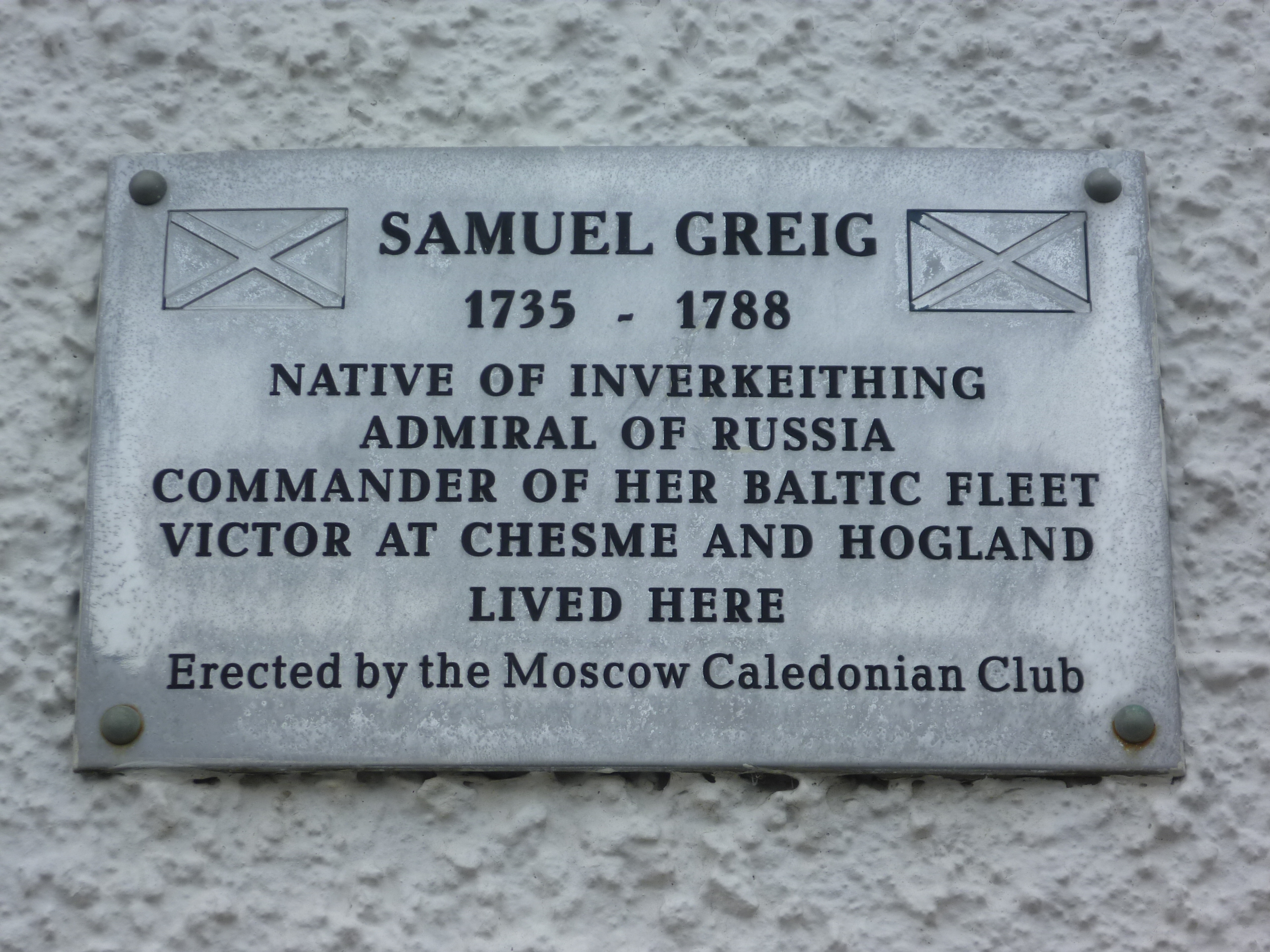 Plaque at the birthplace of Samuel Grieg (now the 'Half Crown' public house) in Inverkeithing High Street, Fife.